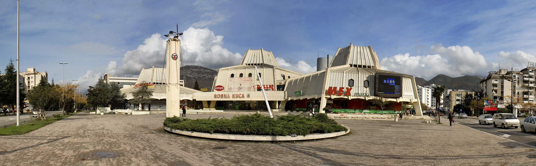 Shopping Malls in the centre of Bar, including a smaller part of the main Town square (Solidarity Square).